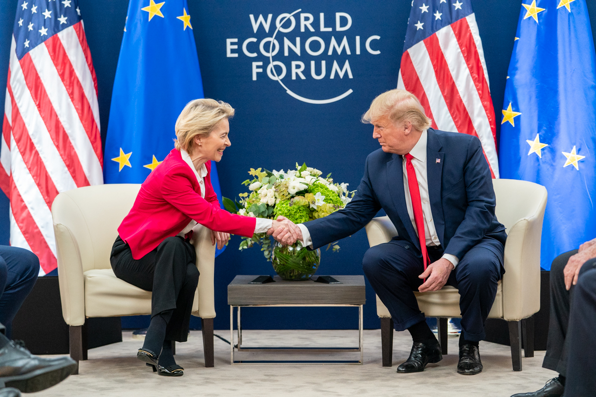 President Donald J. Trump meets with the President of the European Commission Ursula von der Leyen during the 50th Annual World Economic Forum meeting Tuesday, Jan. 21, 2020, at the Davos Congress Centre in Davos, Switzerland. (Official White House Photo by Shealah Craighead)